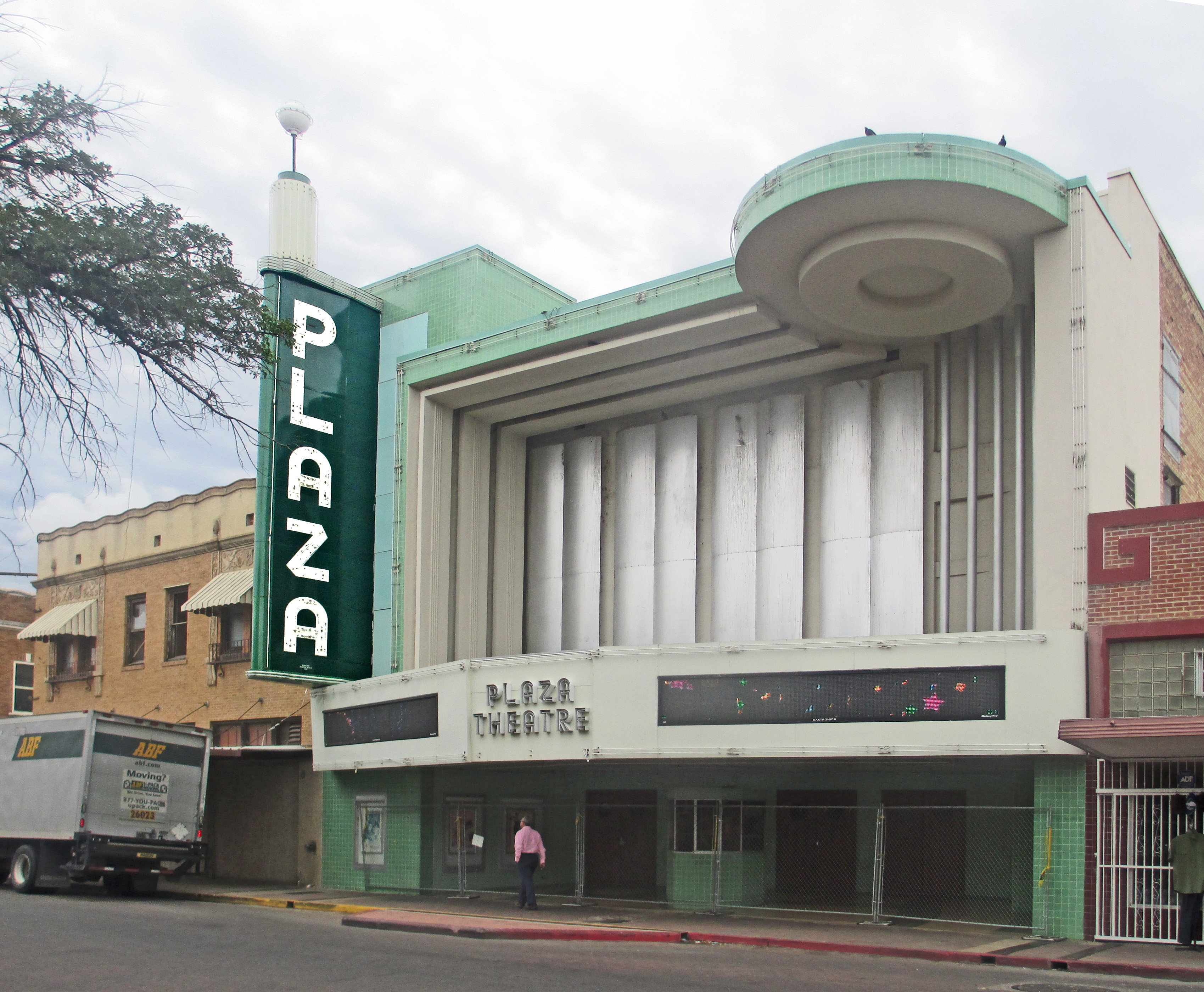 I took photo of downtown abandoned Plaza Theater in Laredo, TX, with Canon camera.